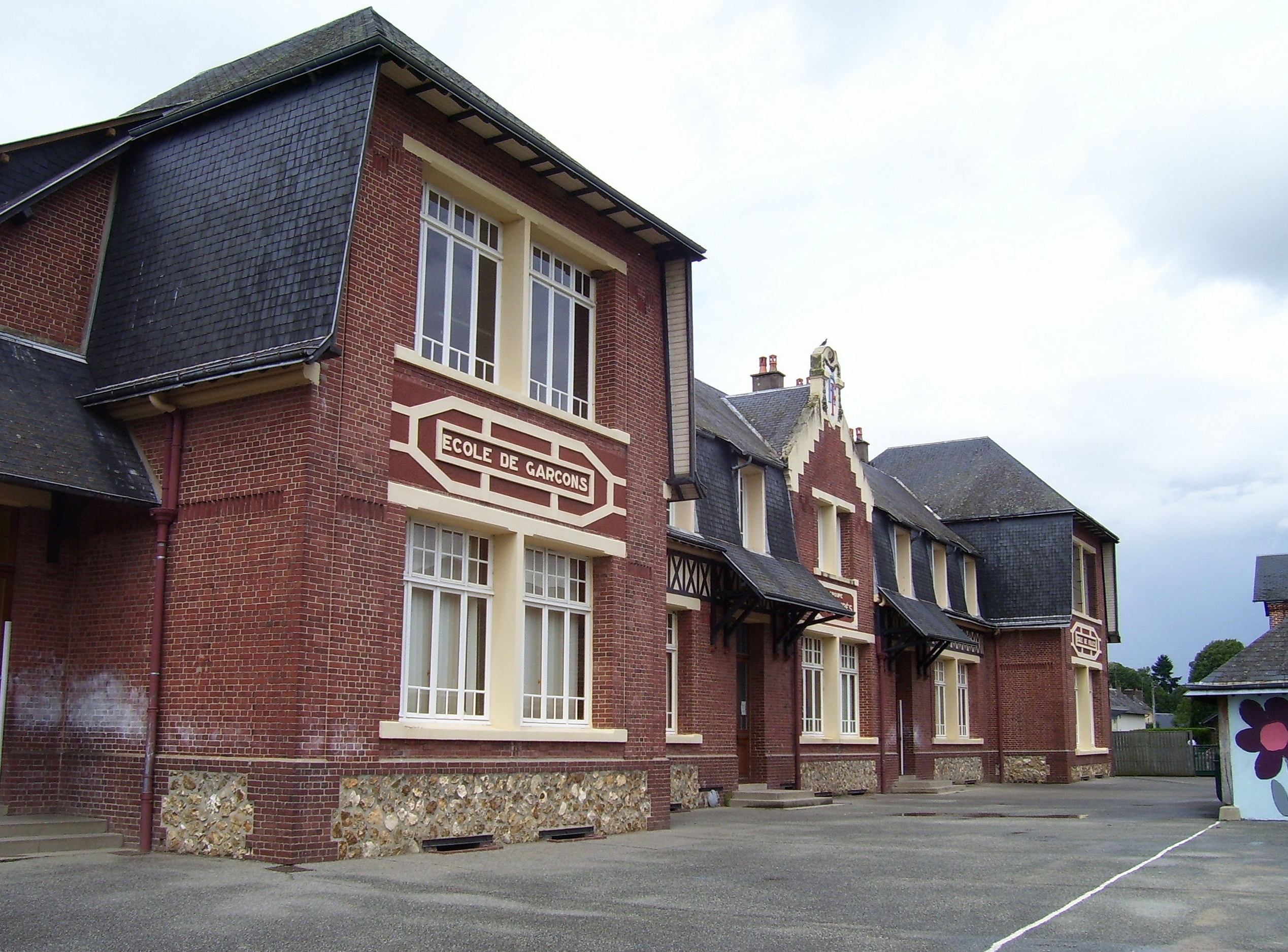 The school Jean Jaures in Serquigny (Eure, France) was built in 1936.